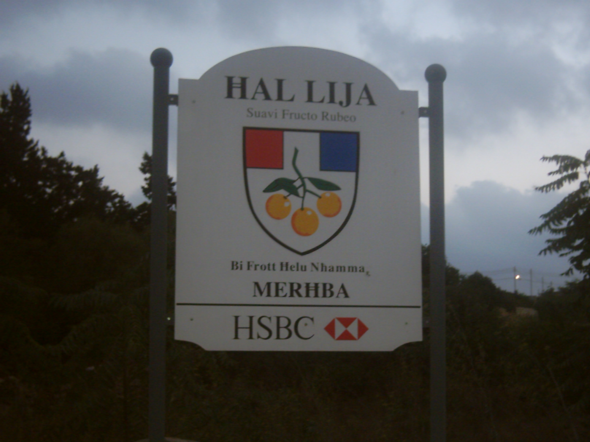 I took this photo during my summer holiday in Malta in July 2004.